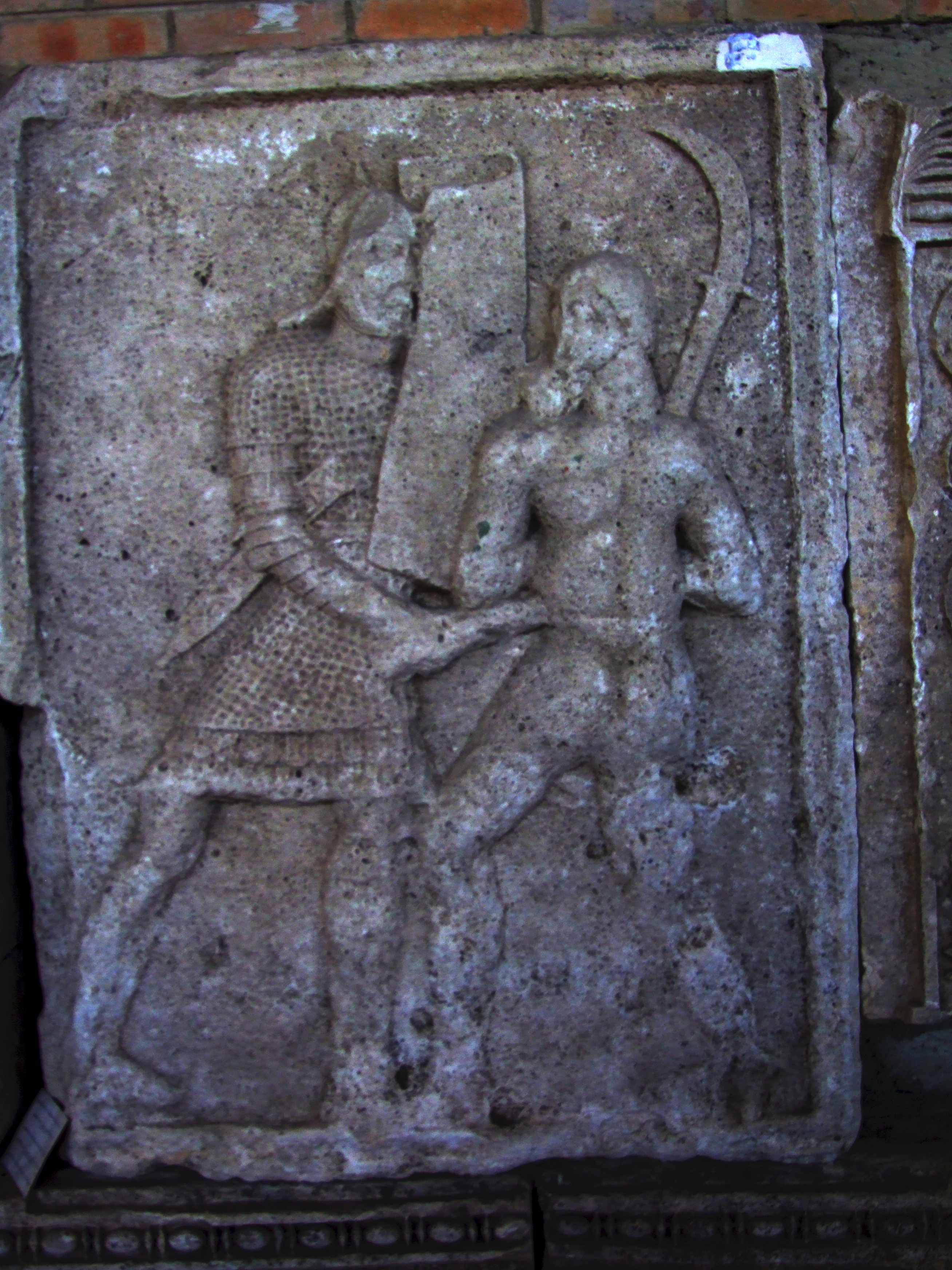 Tropaeum Traiani Metope XVIII